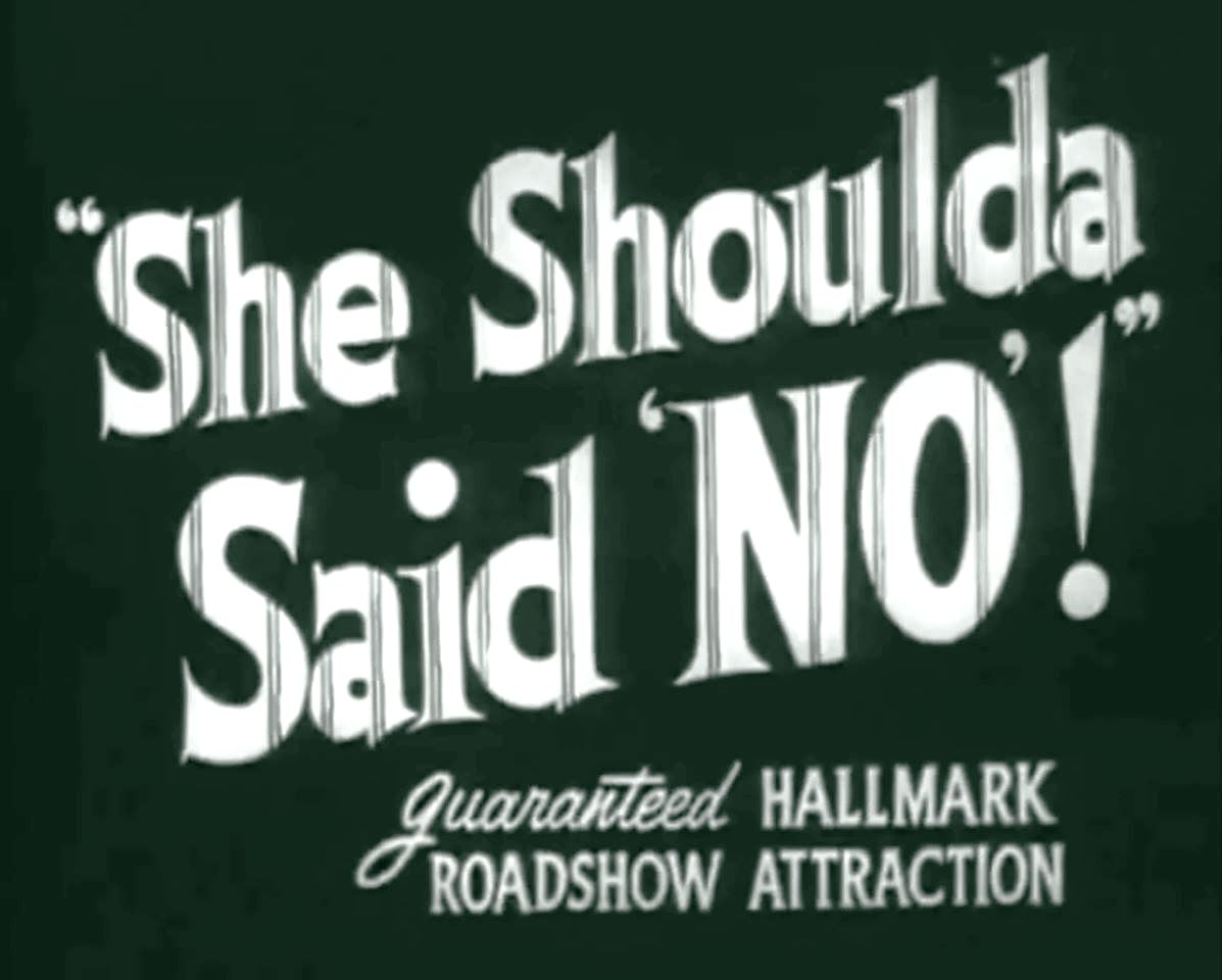 Low resolution screenshot of title card from the American public domain film She Shoulda Said No! (1949).